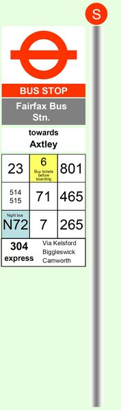 Bus stop - London